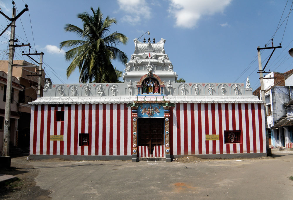 Perumal Kovil facing Deep Street.